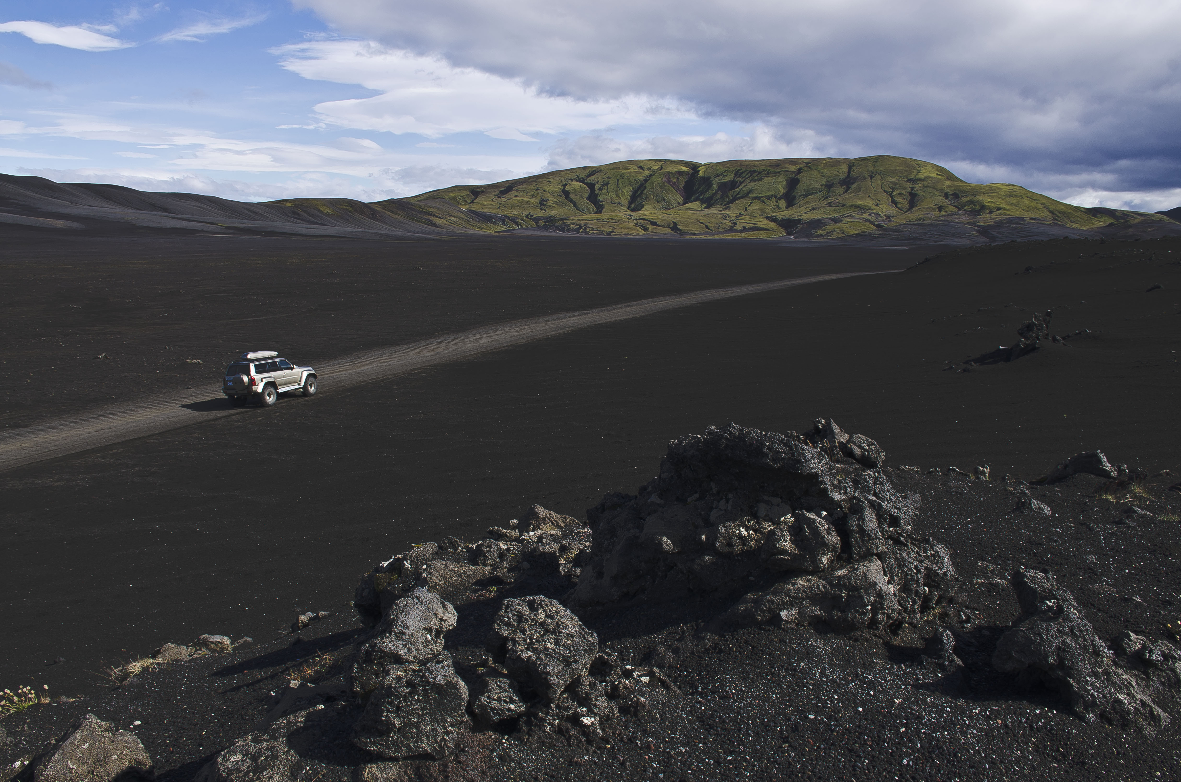 Highland road Landmannaleið (F225), Iceland